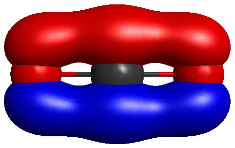 Carbon dioxide pi bonding molecular orbital surfaces (-14.42 eV). Firefly 8.2.0 DFT B3LYP 6-311++G(d,p) energy minimum.